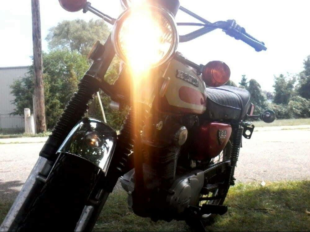 A picture I took of my motorcycle.